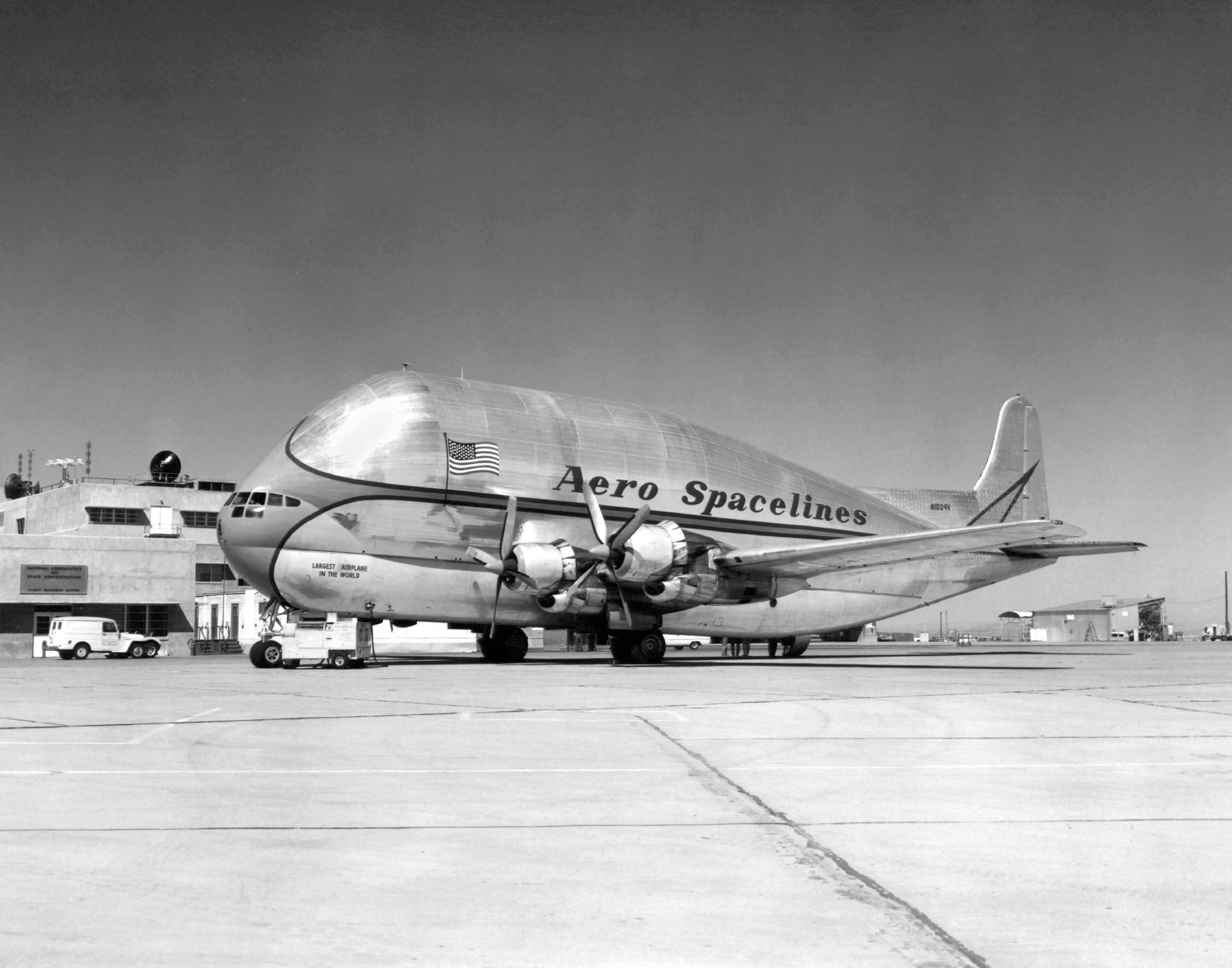 The Aero Spacelines B-377PG Pregnant Guppy was flown to Dryden for tests and evaluation by pilots Joe Vensel and Stan Butchart in October 1962. The outsized cargo aircraft incorporated the wings, engines, lower fuselage and tail from a Boeing 377 Stratocruiser with a huge upper fuselage more than 20 feet in diameter. The modified aircraft was built to transport outsized cargo for NASA's Apollo program, primarily to carry portions of the Saturn 5 rockets from the manufacturer to Cape Canaveral.